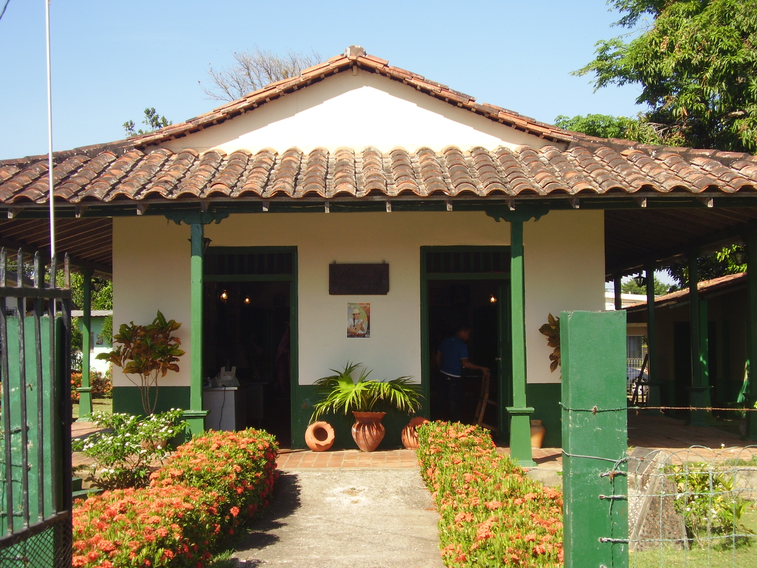 House were Manuel F. Zarate, a panamanian folklorist, lived. Casa donde Manuel F. Zarate, un folclorista panameño, vivió.